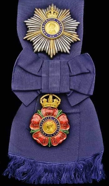 From my collection, this is an example of the sash, badge, and star of a Knight Grand Commander of the Most Eminent Order of the Indian Empire--an order of chivalry founded by HM Queen Victoria in 1878.